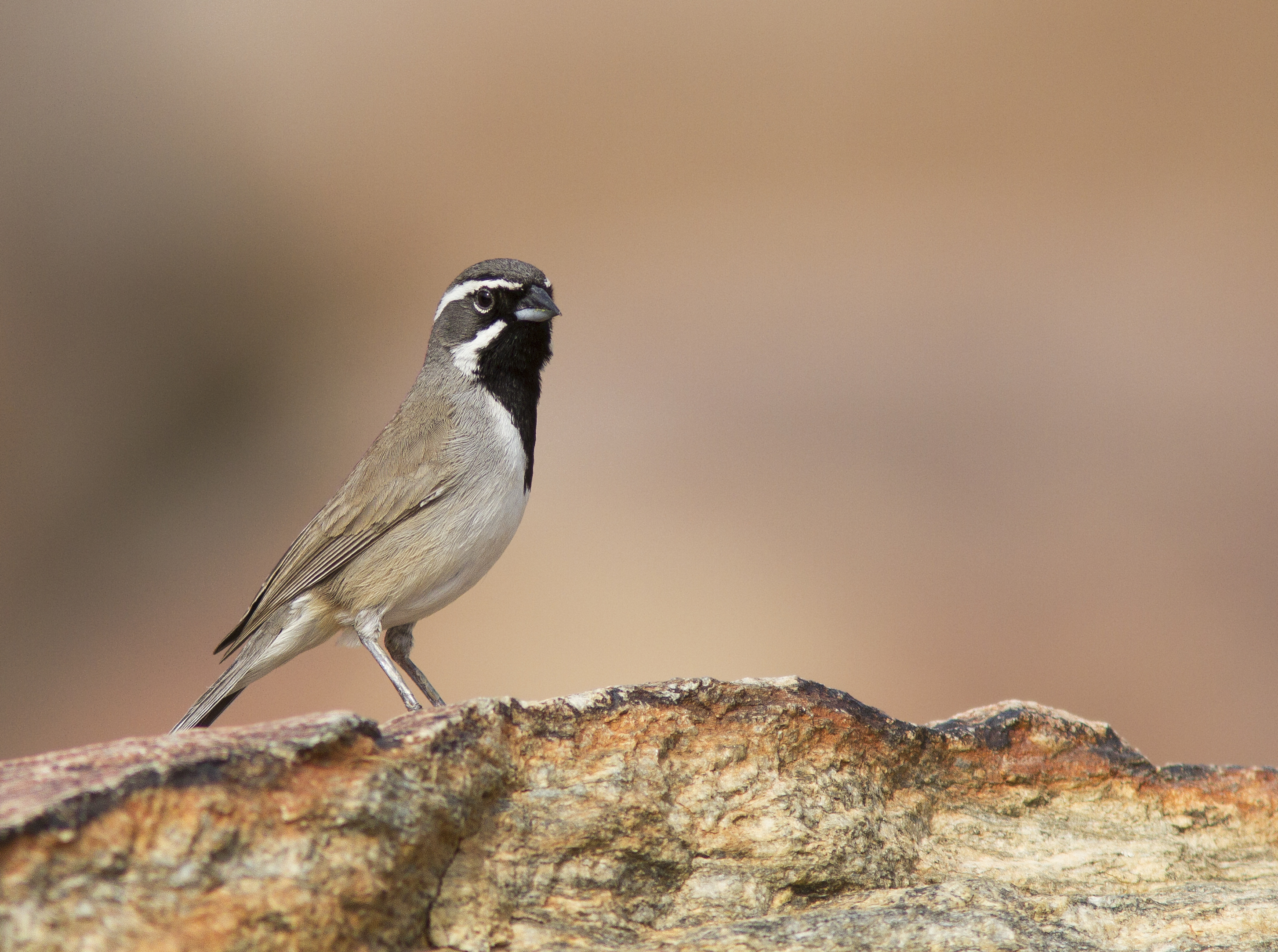 A Black-throated Sparrow in California, USA.